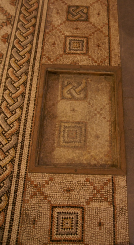 Church of All Nations, Jerusalem, Israel - mosaic floor, modern and 12th century